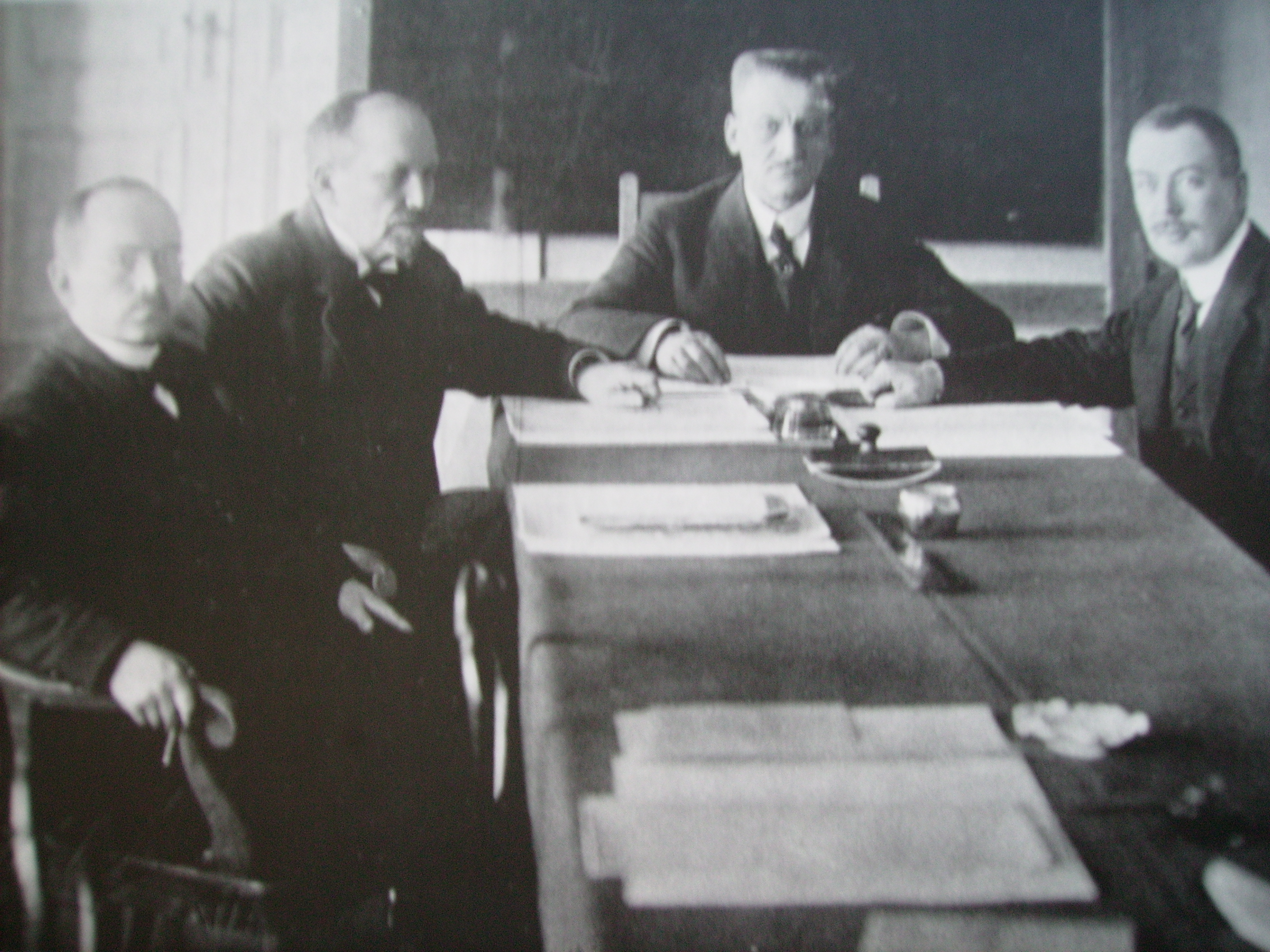 Picture of Vasa senate 1918